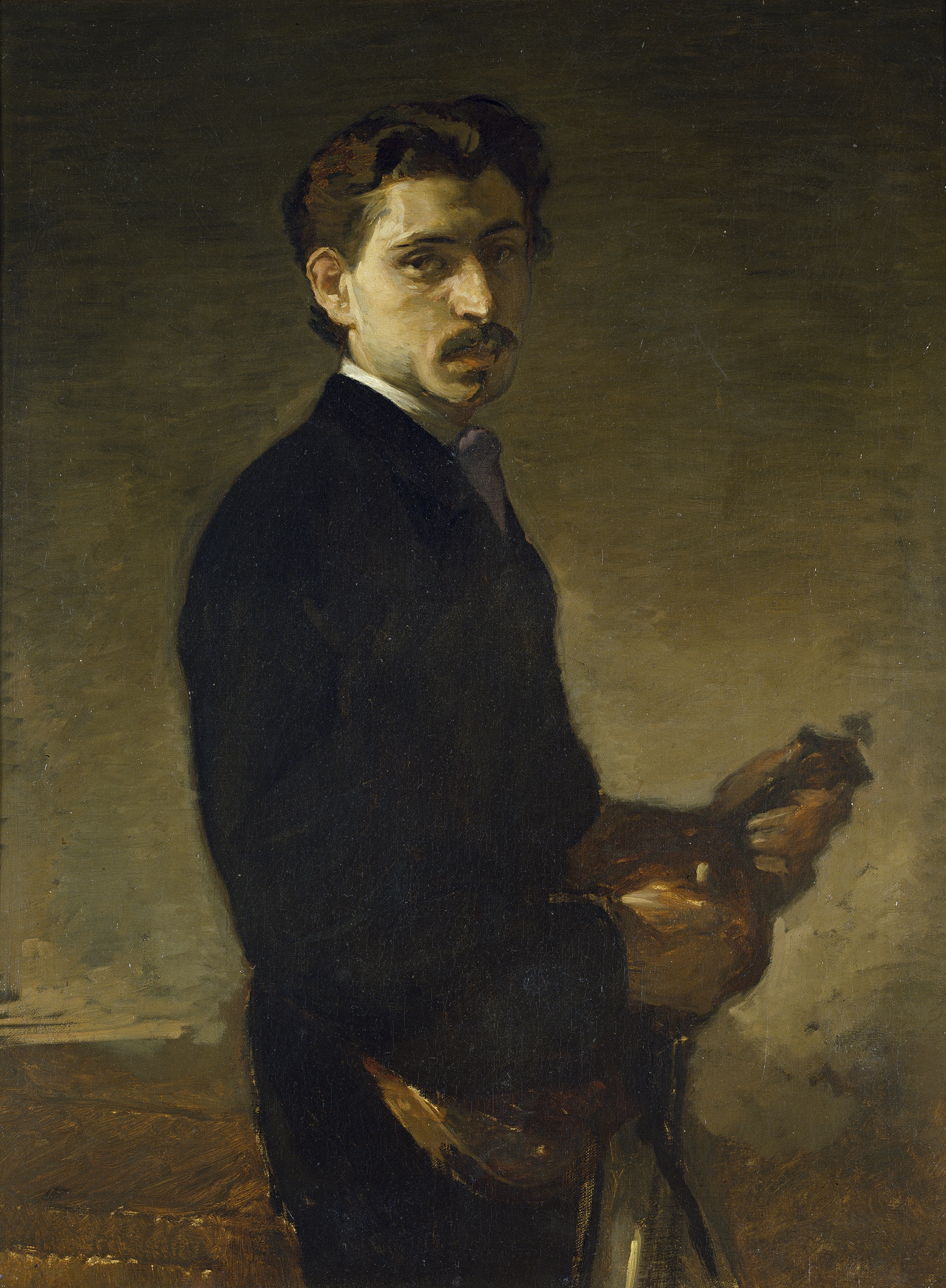 A portrait of the composer and performer, Héctor Pinelli (1843 - 1915), a violinist and conductor from a family of music lovers.